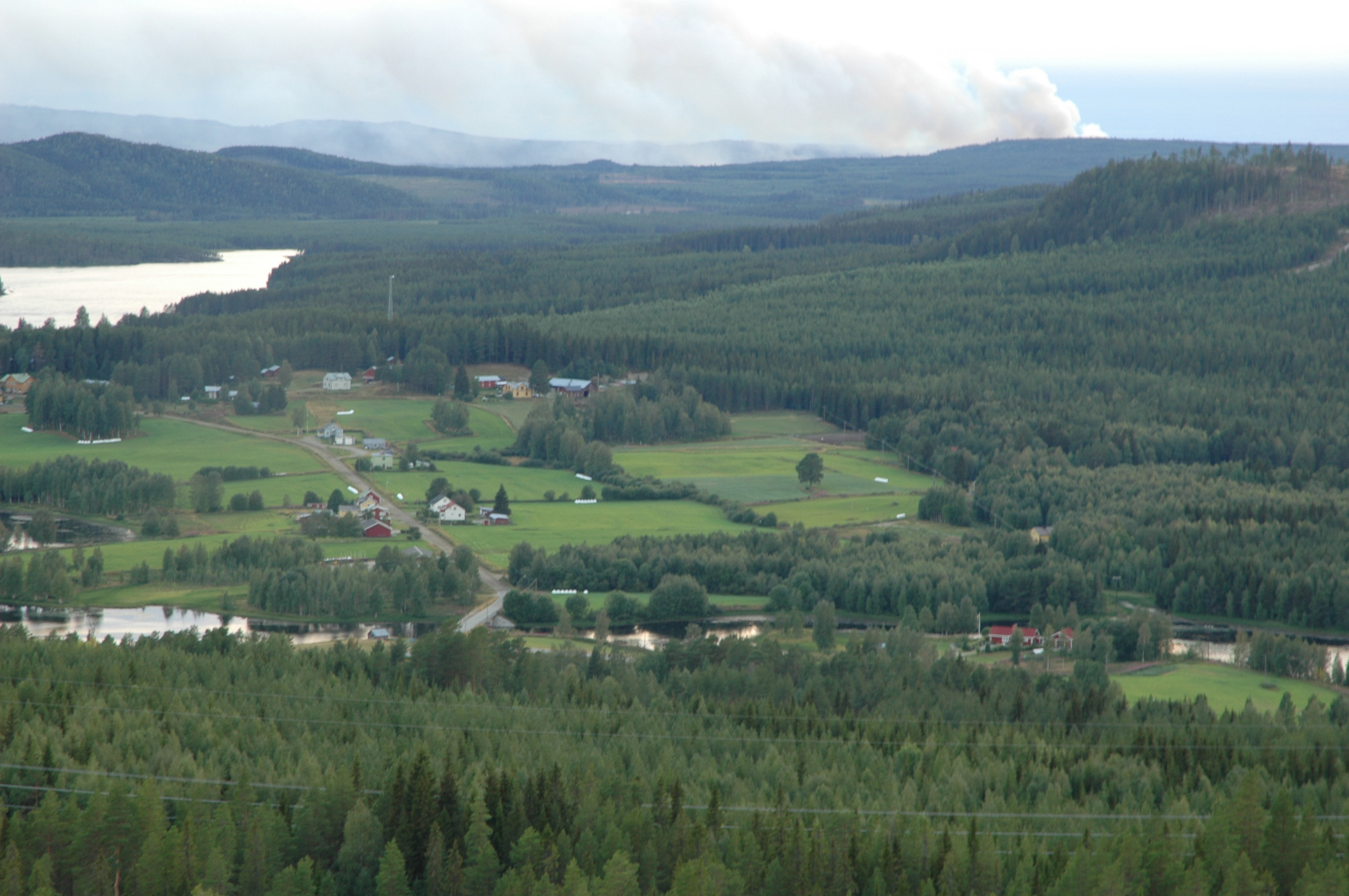 Vängelfrom Storberg